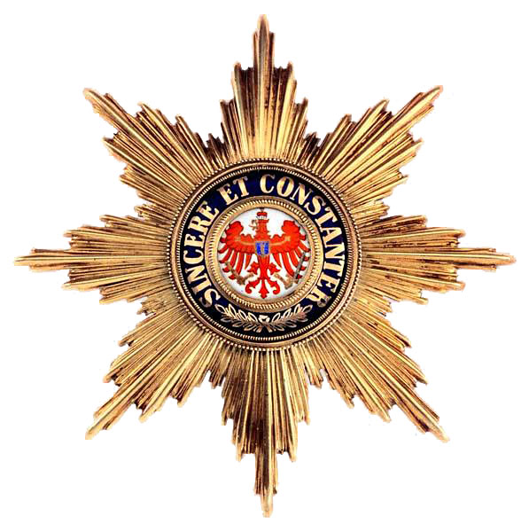 Breast Star of the (Prussian) Red Eagle Order, Grand Cross (1861 - 1918)